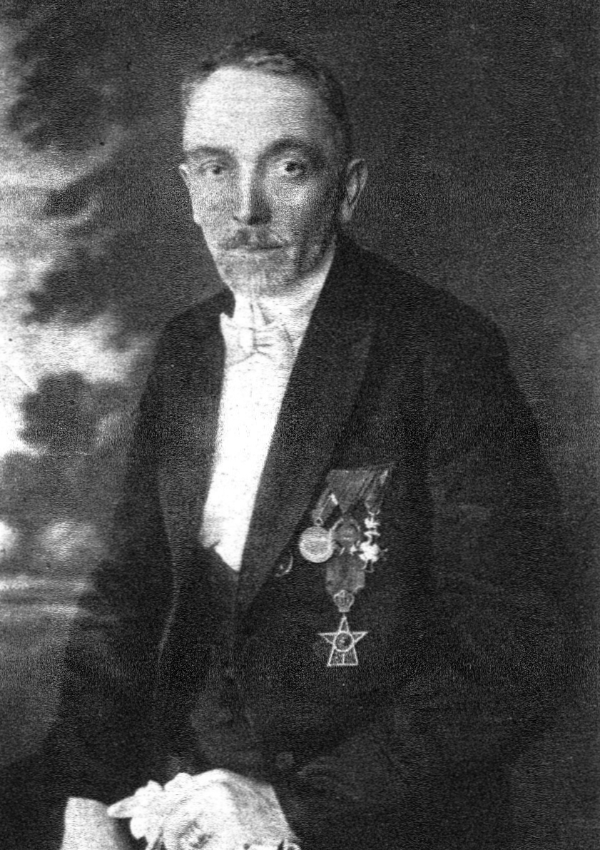 Franz Julius Bieber (1873–1924), Austrian anthropologist.